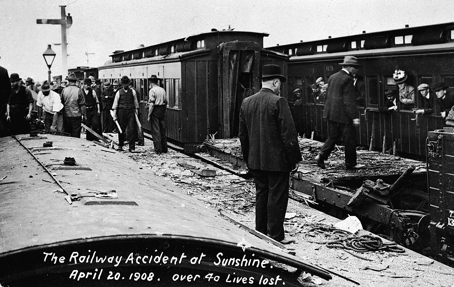 Image presumed to be taken by a newspaper photographer of the aftermaths of the Sunshine rail disaster. Rescue workers and onlookers are at the scene of the accident. The roof of a carriage is on the left while the carriage on the right has only its chassis remaining.